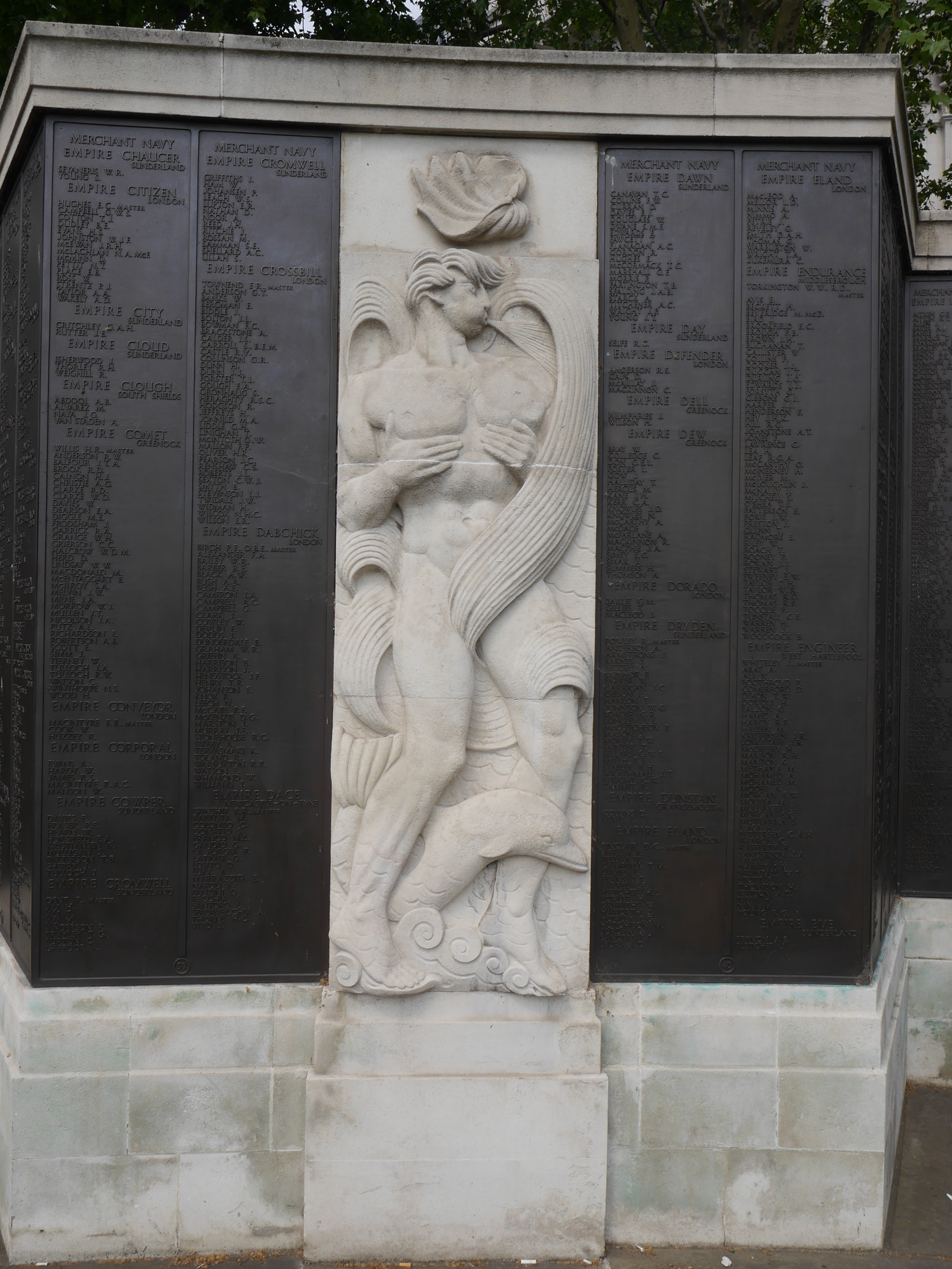 One of the relief sculptures by Charles Wheeler in the sunken garden at the Tower Hill memorial, commemorating the merchant mariners who lost their lives in World War II. This relief is the second (counting clockwise from the west), between panels 39 and 40.